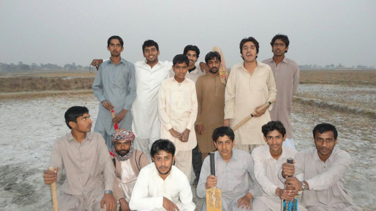 Sharifani People Cricket Team